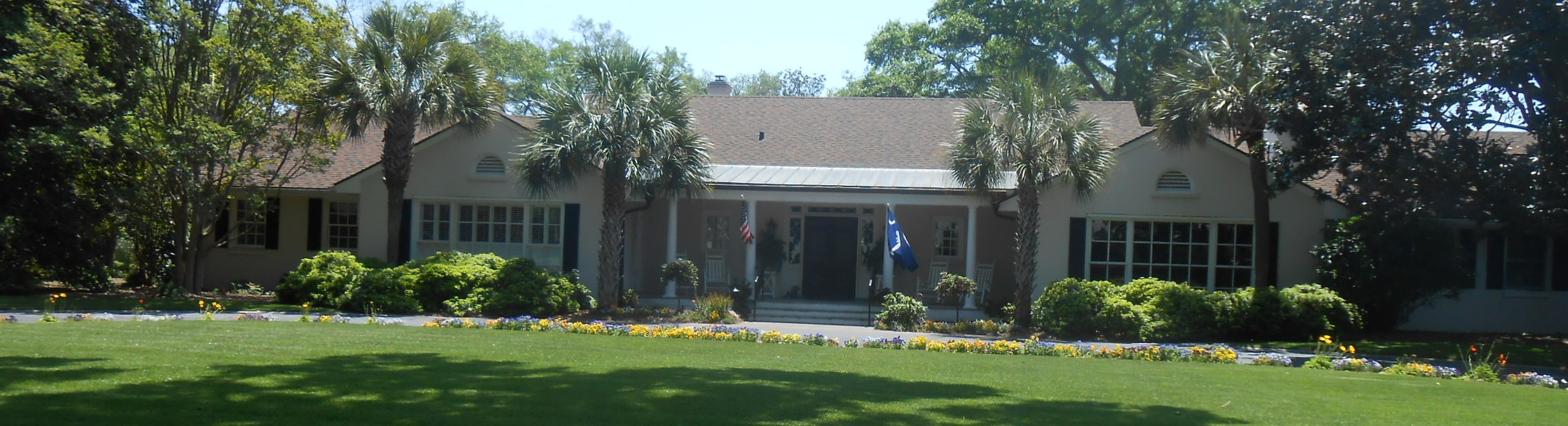 Citadel President's House, Charleston, South Carolina